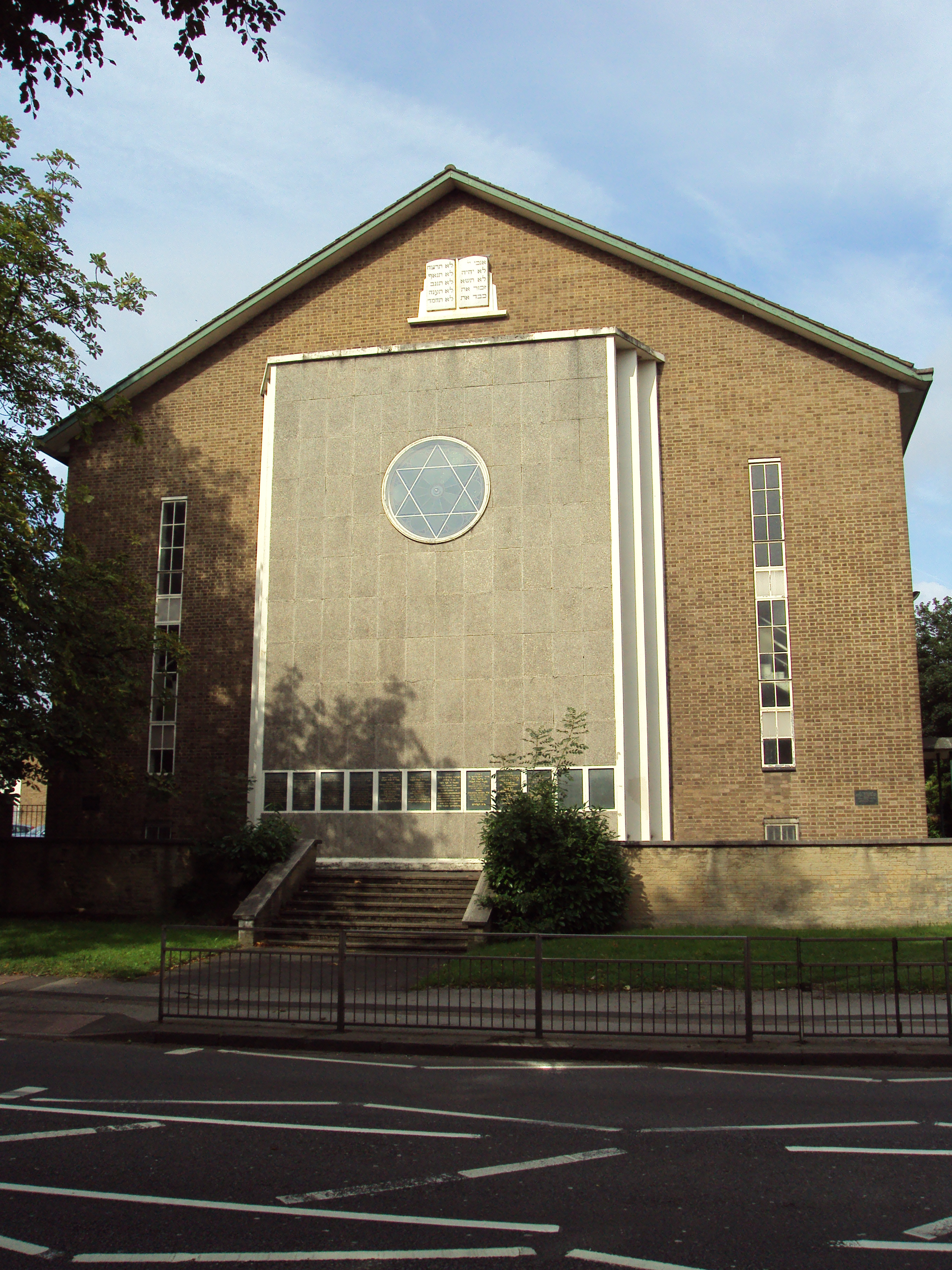 Birmingham Central Synagogue, Pershore Road, Birmingham, England. Demolished in October 2013